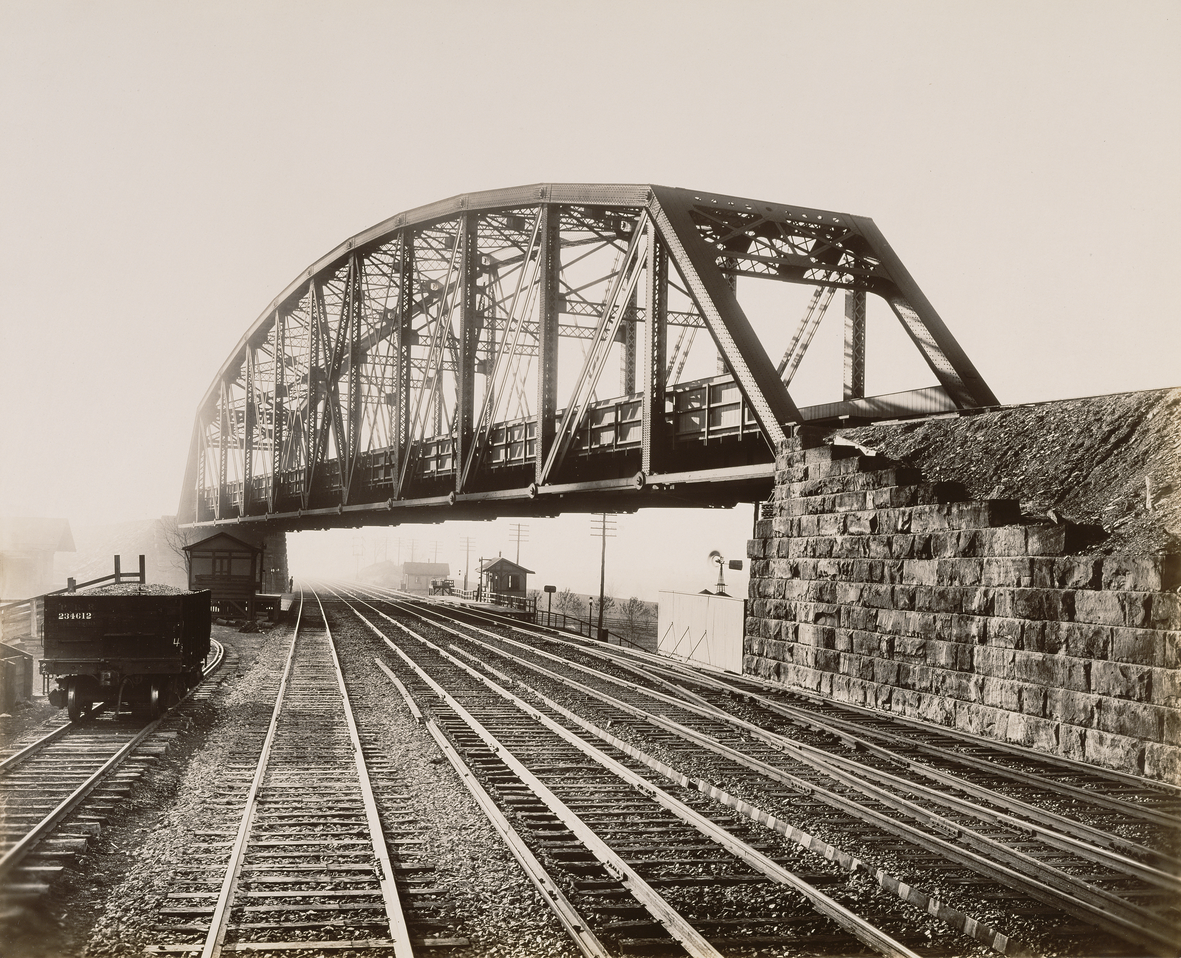 "Low grade Crossing at Whitford" photograph by William H. Rau 1904 photo of the bridge (aka "Crossing" or "Flyover") at the Whitford Station House at 405 South Whitford Road in the area known as Whitford (about 2 miles east of Downingtown) in West Whiteland Township, Chester County, Pennsylvania. The small station house is just visible under the bridge and was listed on the NRHP in 1984. Digital image courtesy of the Getty's Open Content Program. See [ The J. Paul Getty Trust Home Open Content Program] Their meta data follows: Artist/Maker(s): William H. Rau, photographer [American, 1855 - 1920] Date: 1904 Medium: Gelatin silver print Dimensions: Image: 44 x 54.6 cm (17 5/16 x 21 1/2 in.) Object Number: 84.XO.766.3.4 Department: Photographs Group Title: Album of Pennsylvania Rail Road Scenery Culture: American Place Created: Whitford, Pennsylvania, United States, North America Inscriptions: Inscription: Titled ro. mount in ink. Classification/Object Type: Photographs / Print - See more at